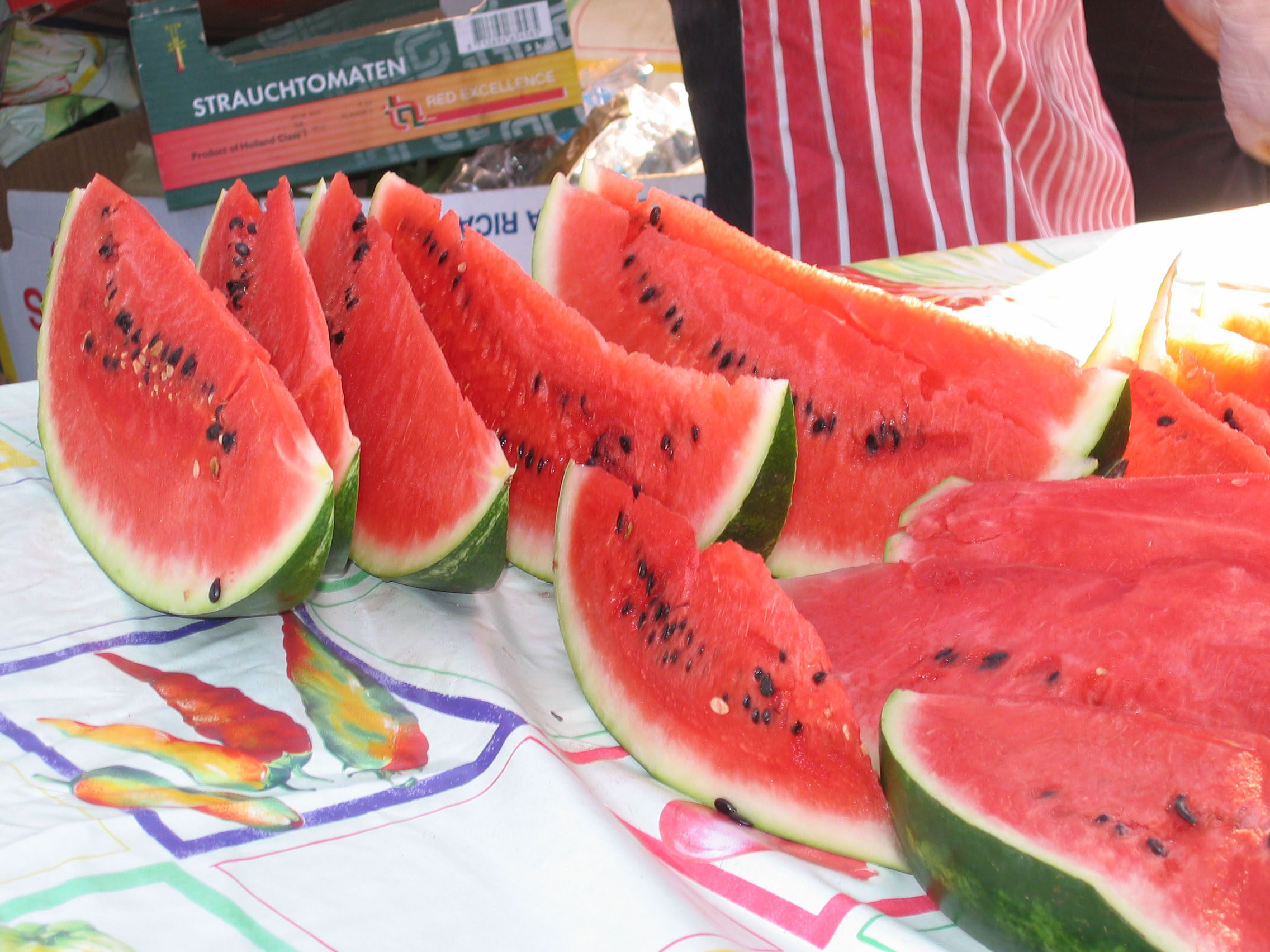 Water Melon on sale at the London United/Rise festival